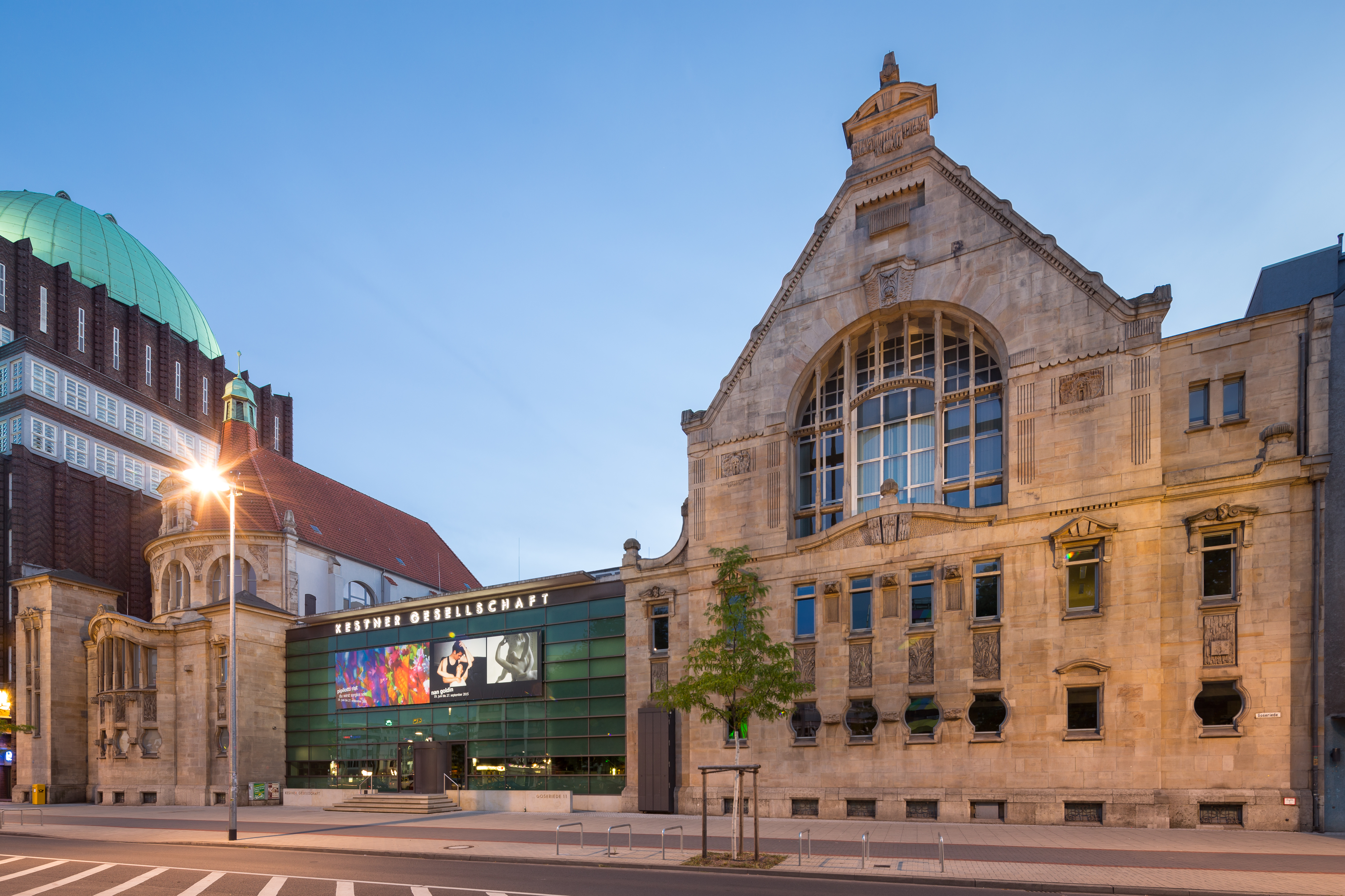 Former Goseriede swimming bath, now used by Kestnergesellschaft arts museum, located at Goseriede road in Mitte quarter of Hannover, Germany.